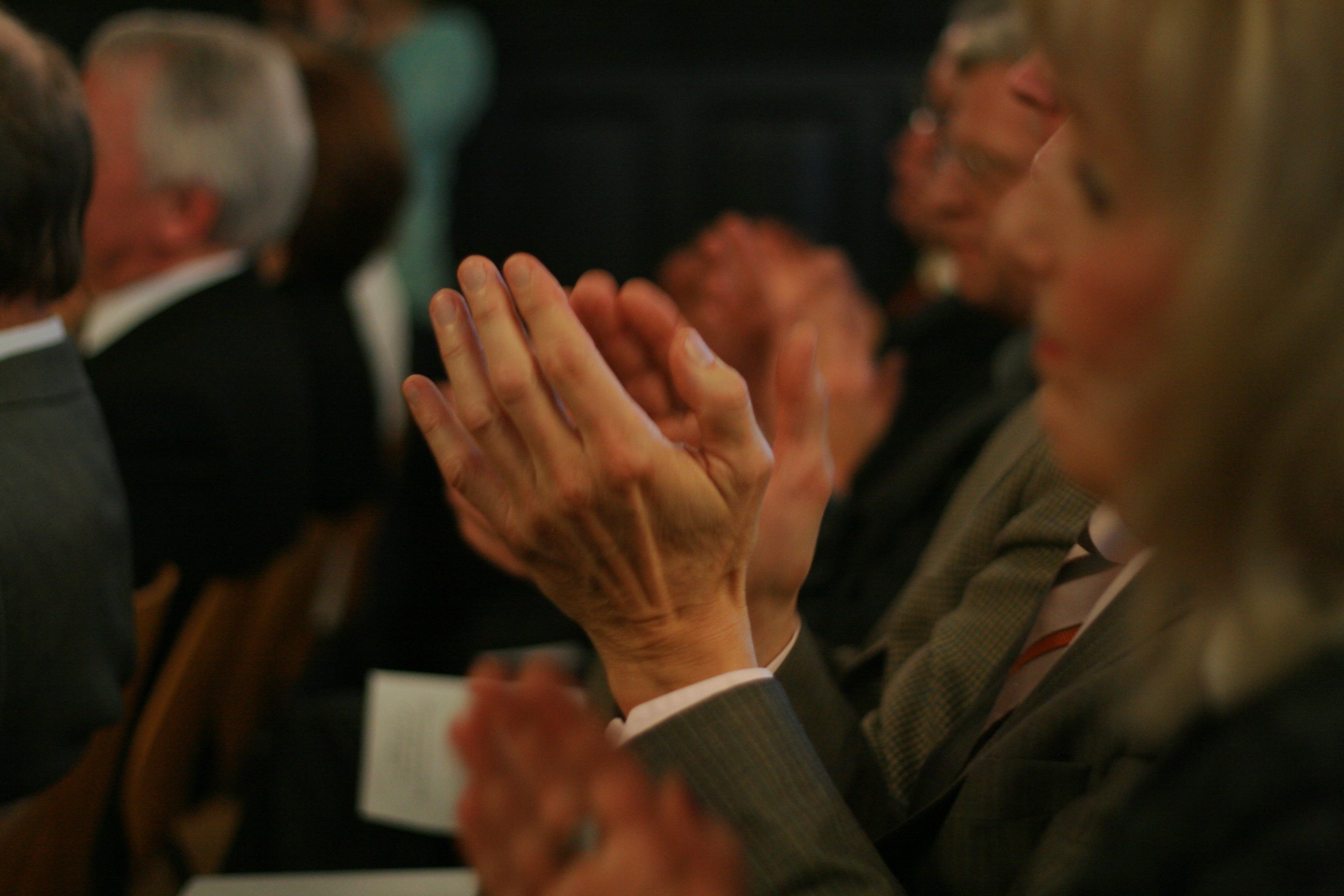 Applauding people during a inauguration ceremony at the Görres High School in Koblenz, Germany.